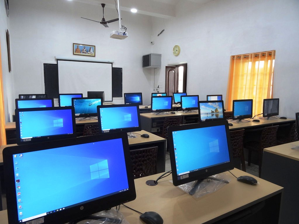 set for Digital Resources